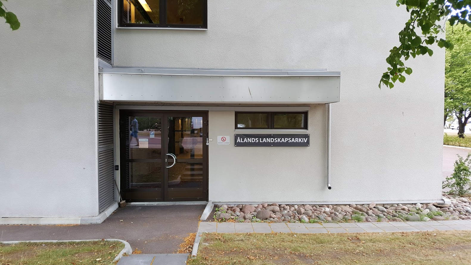 The entrance to The Provincial Archives of Åland can be found at the southern end of the Åland Parliament Building.